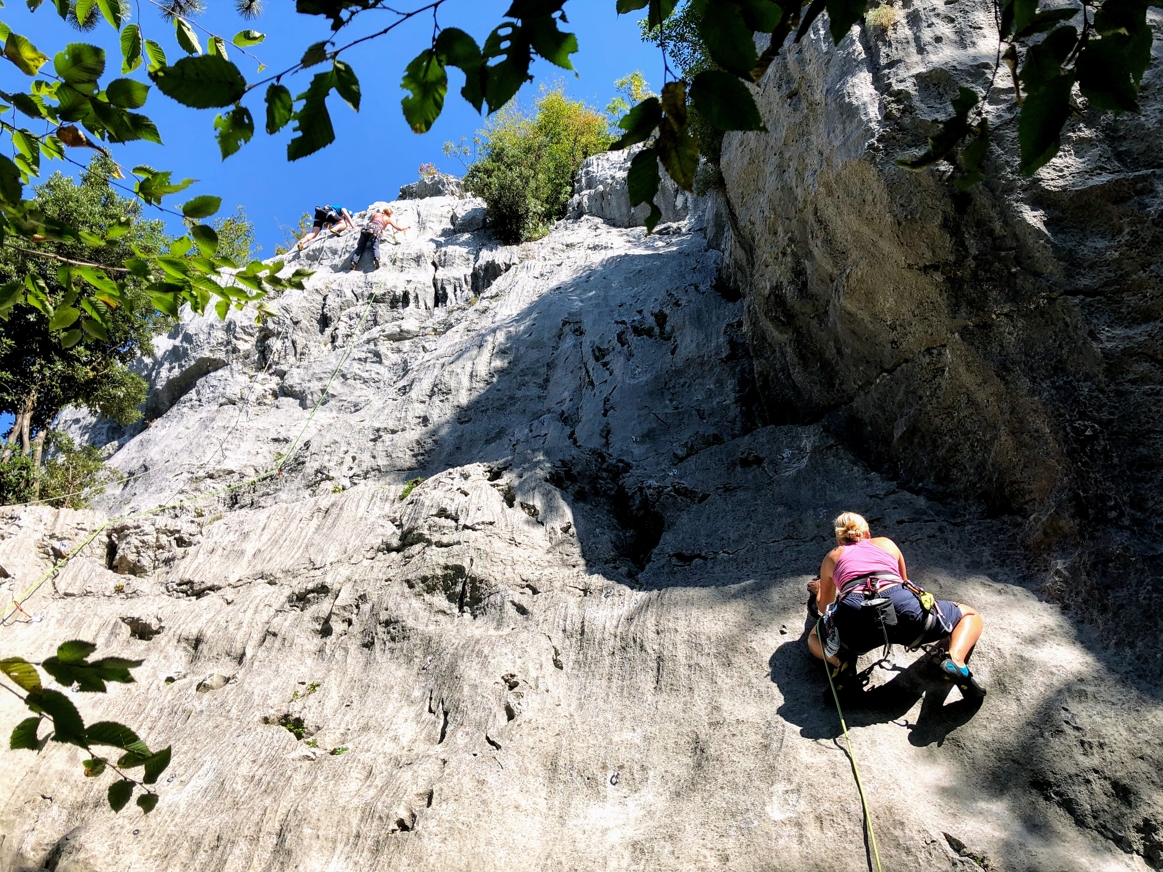 Muro dell' Asino, Arco, Italy, sports climbing